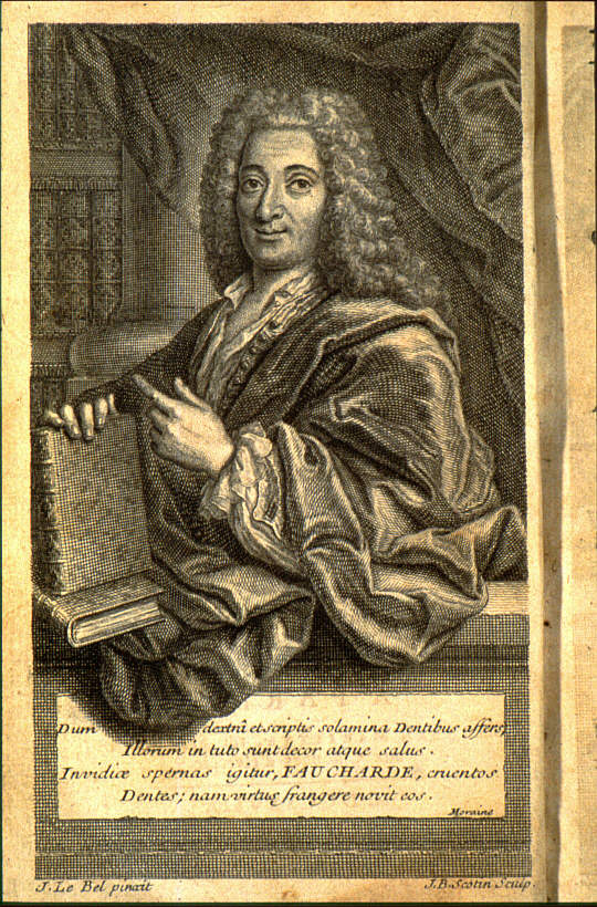 Portrait of Pierre Fauchard's historical book Surgical dentist. The following artwork was obtained from The Library of French Medicine website available on